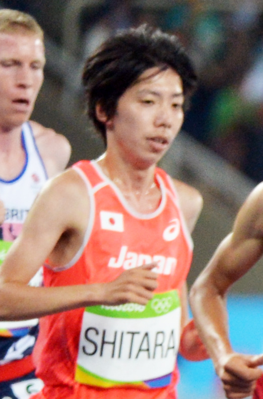 Spcs. Leonard Korir and Shadrack Kipchichir finish 14th and 19th respectively in the men's 3,000-meter run Aug. 13 at the 2016 Rio Olympic Games in Rio de Janeiro. Both Soldiers in the U.S. Army World Class Athlete Program turned in their season-best performaces, with Korir finishing in 27 minutes, 58.65 seconds and Kipchirchir clocked at 27:58.32. Mohamed Farah of Great Britain successfully defended his Olympic crown by winning the race in 27:05.17. Paul Kipnetech Tanui of Kenya took the silver in 27:05.64, and Tamirat Tola of Ethiopia claimed the bronze in 27:06.27.